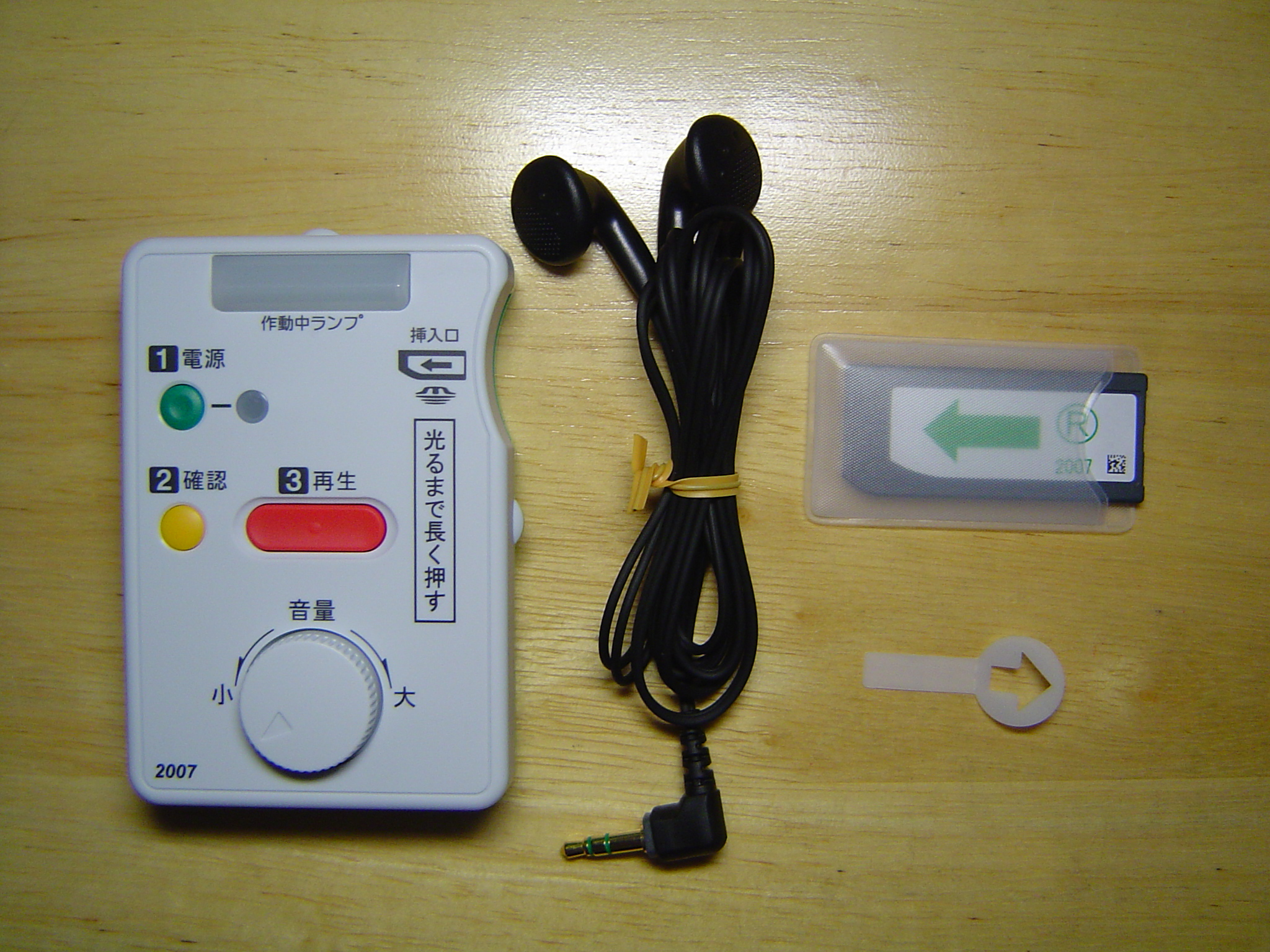 IC player for Listening exam used in 2007 (National Center Test for University Admissions)